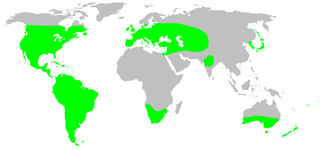 Anyphaenidae habitat distribution, drawn after Platnick: World Spider Catalog 7.0. This is not at all a precise rendering of the distribution! If you have better information, please replace this map, or send me the info, and i will redraw it.